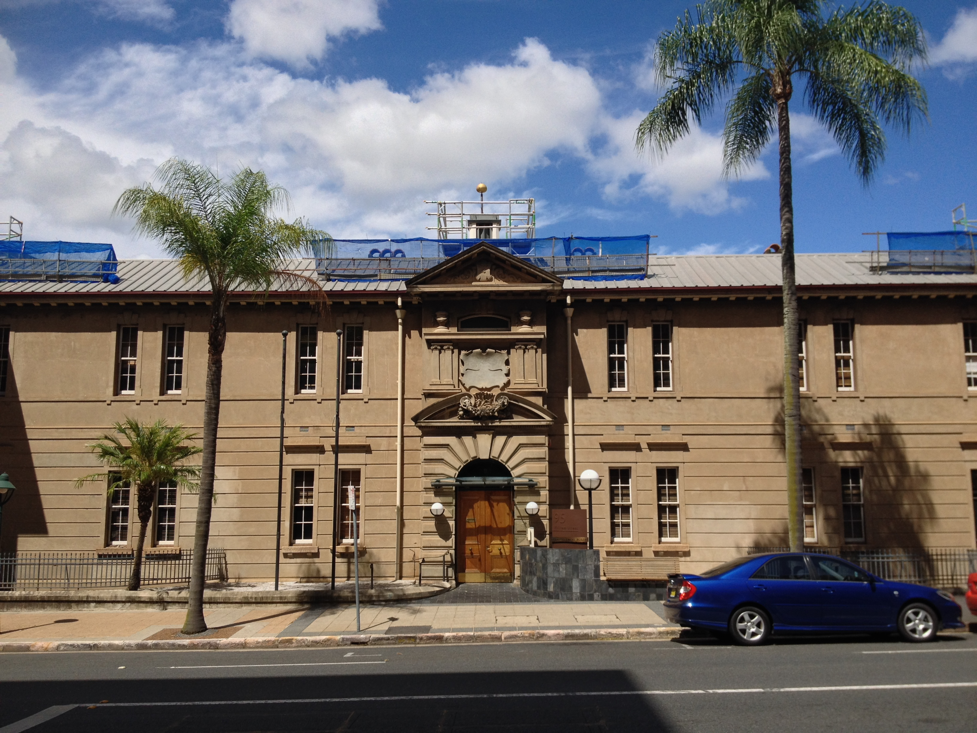 National Trust House, at 95 William Street, Brisbane